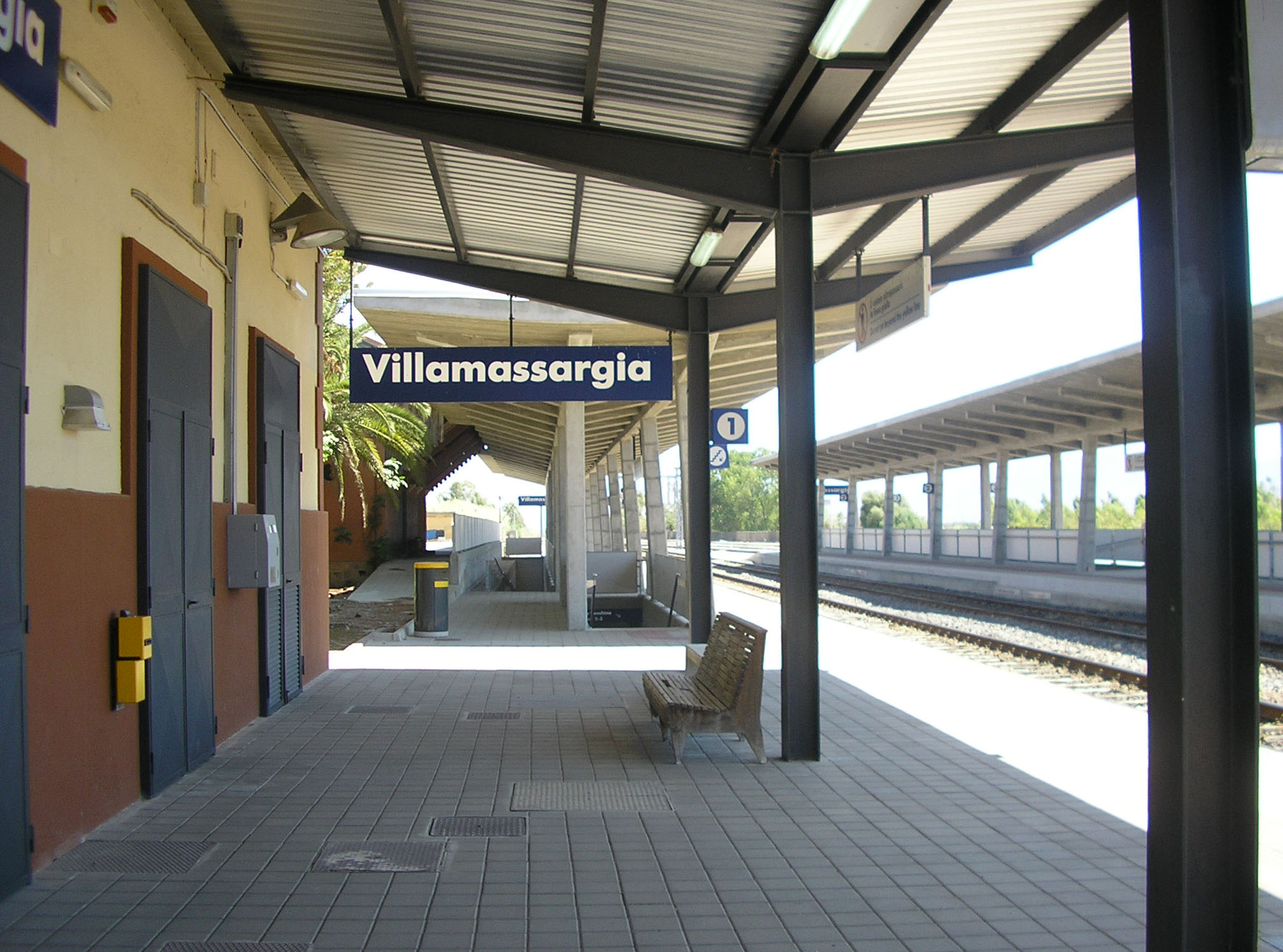 The entry of the subway of the railway station of Villamassargia-Domusnovas, in Sardinia, Italy.